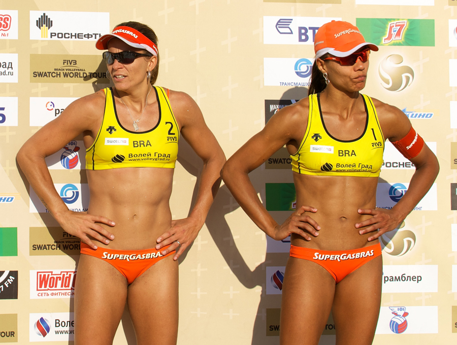 Grand Slam Moscow 2011